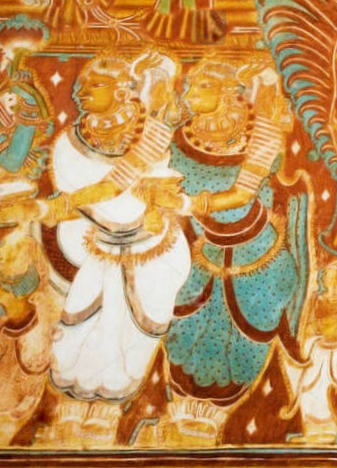 Scene from Gajendra Moksha Mural in Krishnapuram, 1730 CE